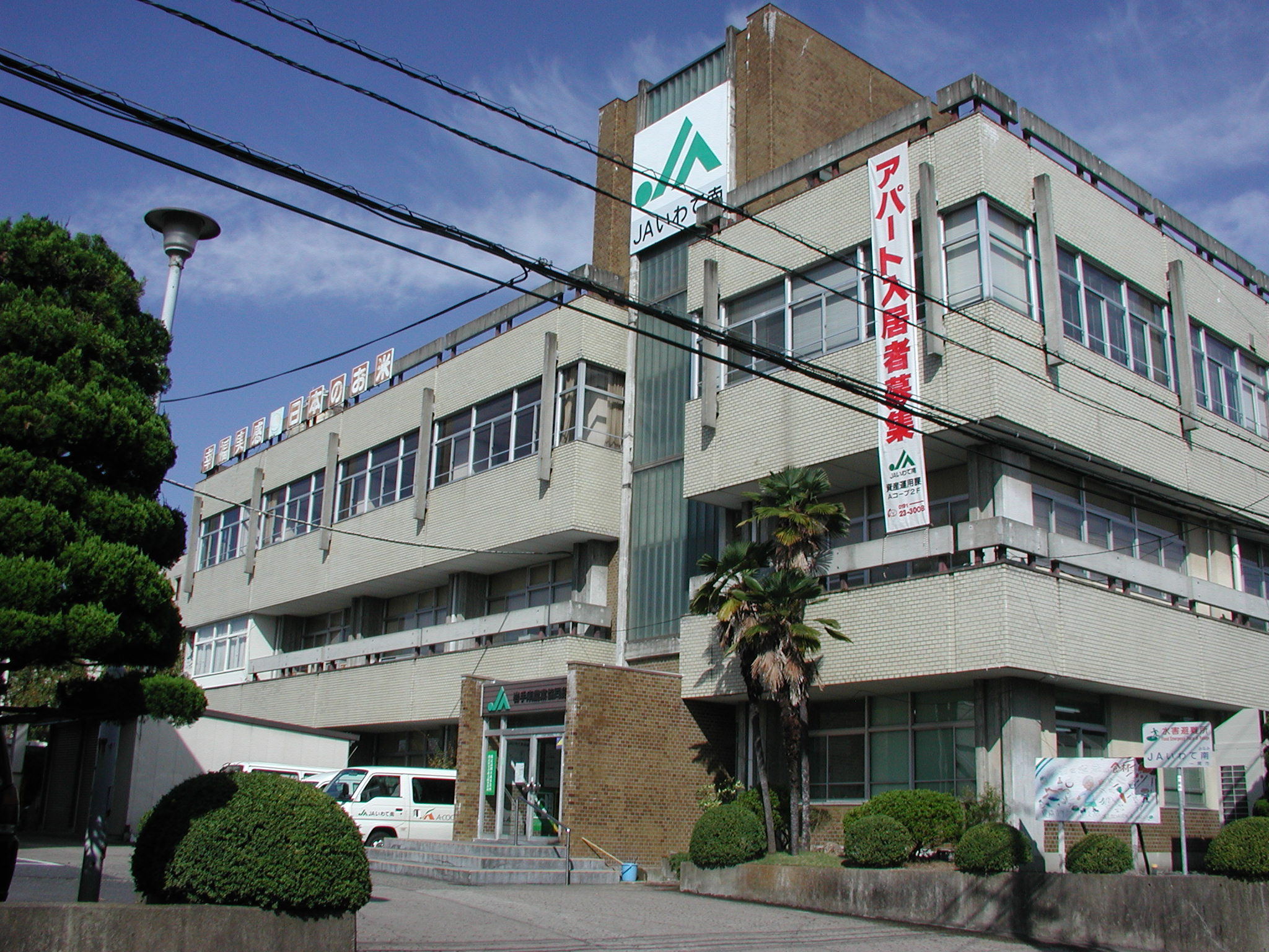 The Iwate-Minami Agricultural Cooperatives Head Shops